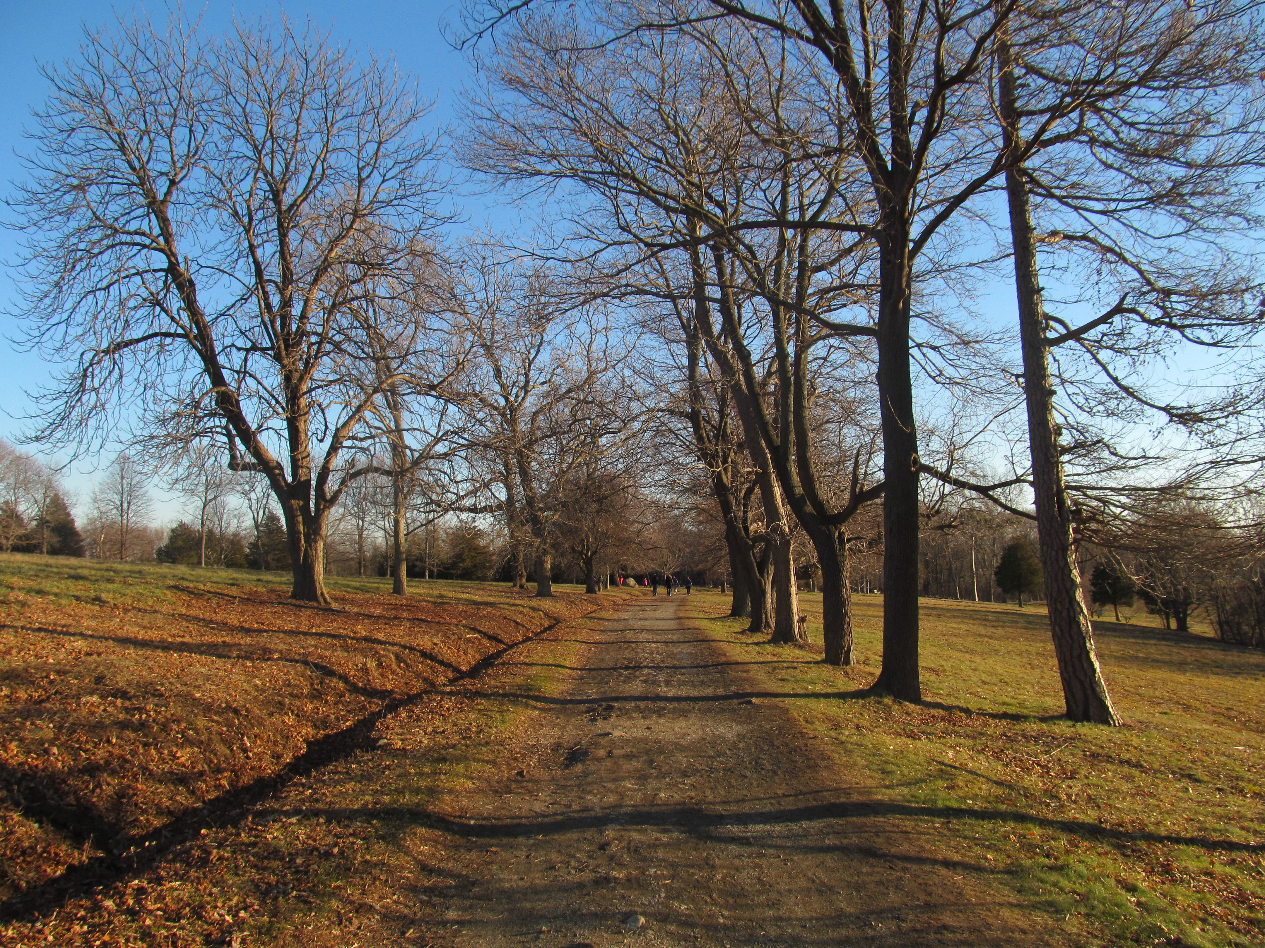 Brewer Road in World's End in January 2017